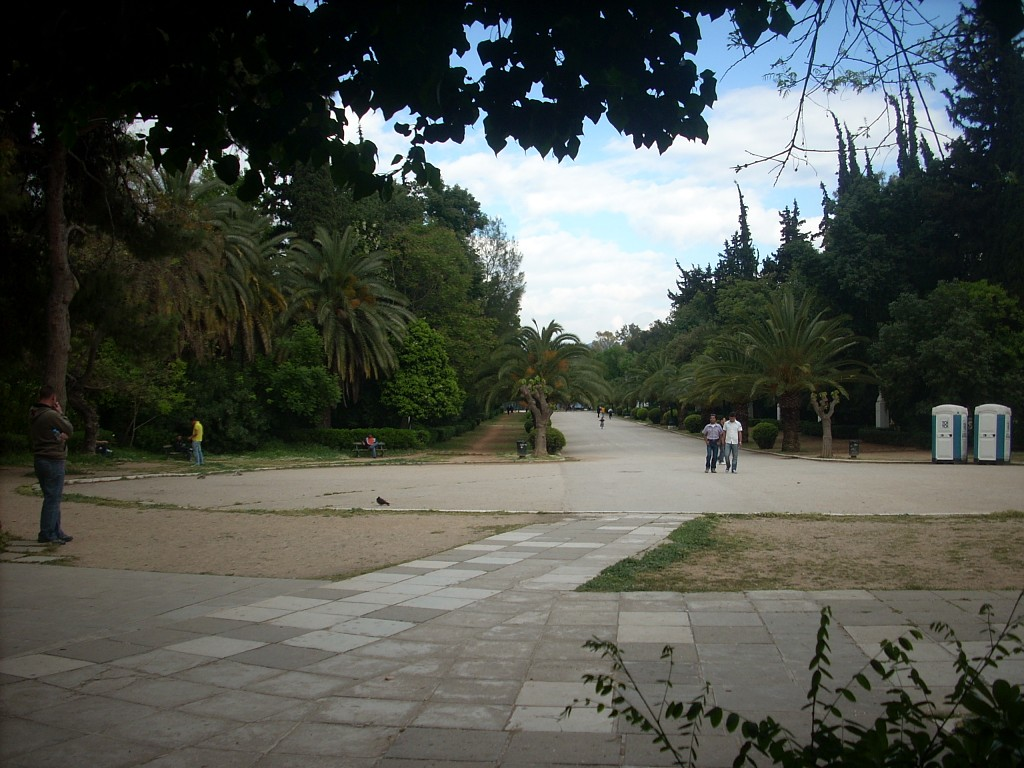 Square in Pedion tou Areos, park in Athens